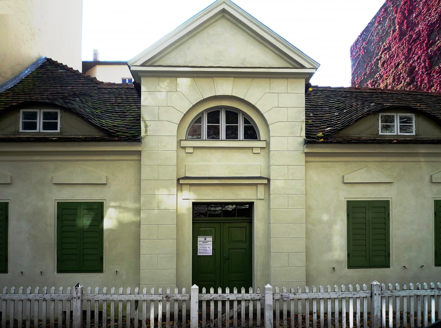 Keramik-Museum (Museum for ceramics) in Berlin-Charlottenburg (Germany). Building from 1712.